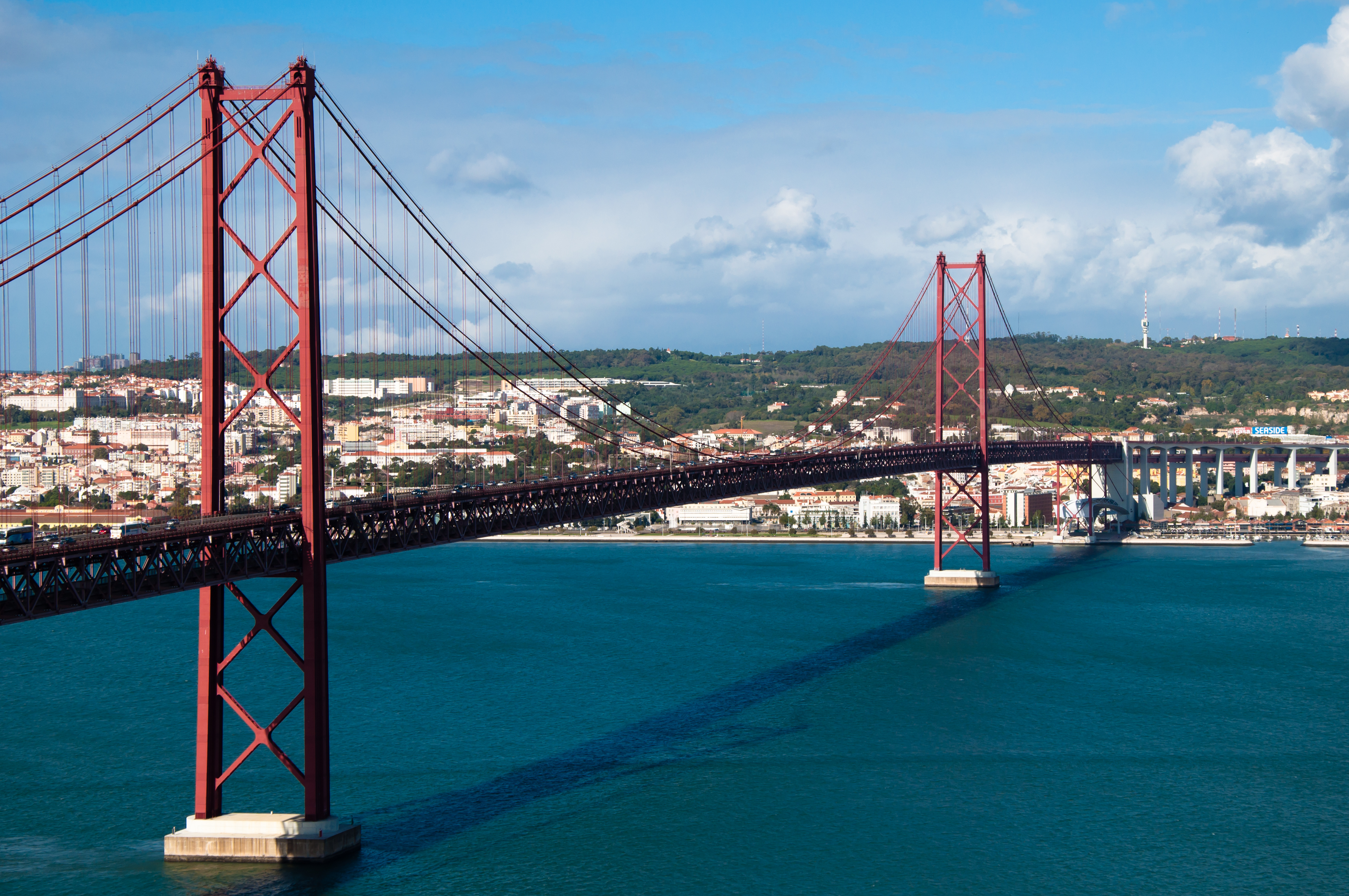 Hmm, that bridge seems oddly familiar...